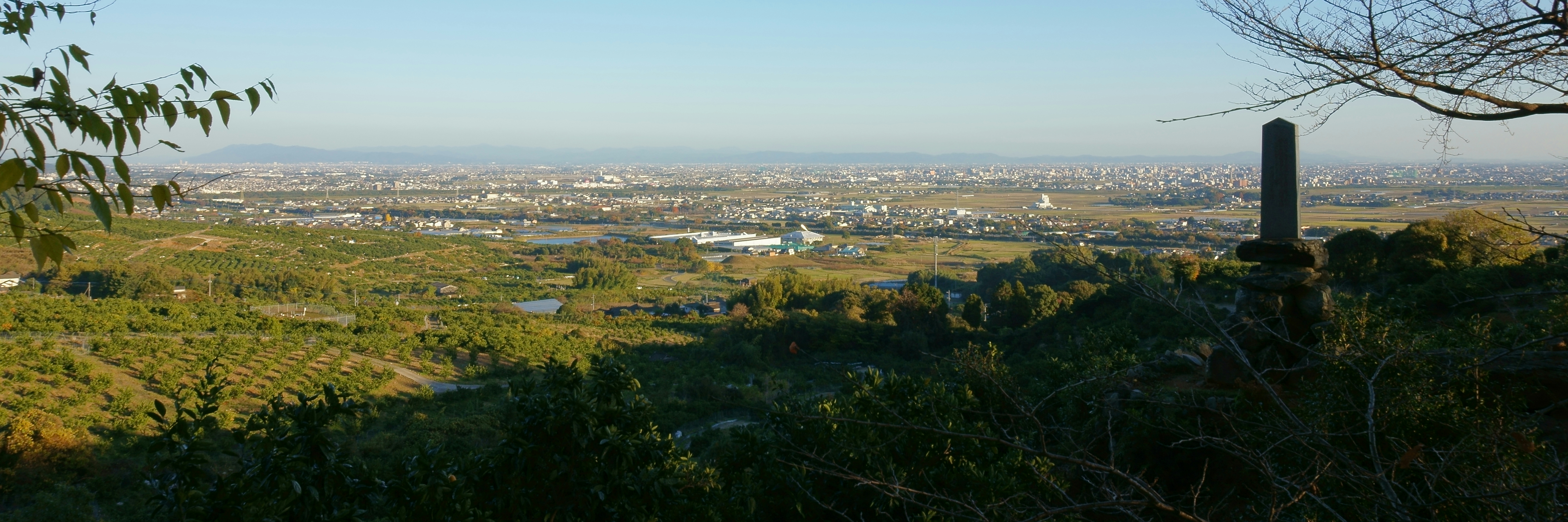 Skyline of Saga(Tsukushi) Plain, and a monument(memorial of visit of Yasuhito, Prince Chichibu) at Nan'nyo Shrine in Yamato, Saga city.